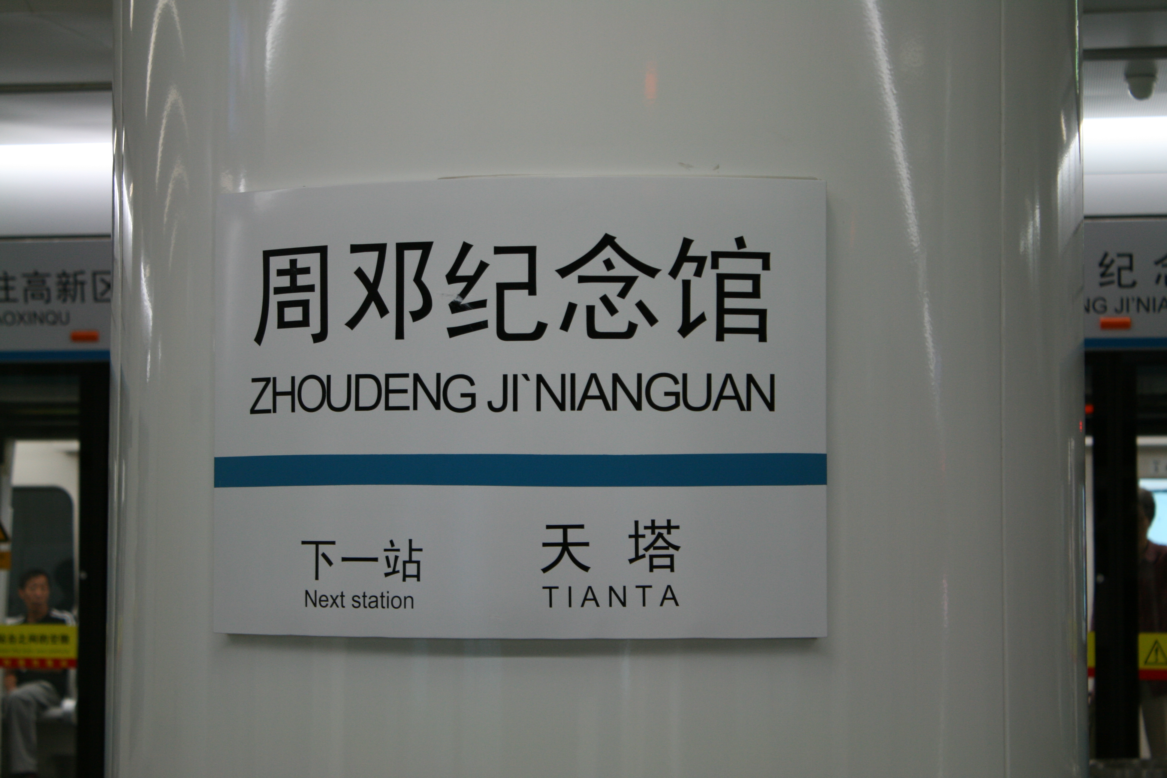 tianjin metro line 3 the ZHOUDENGJIAIGUAN Station ...0004